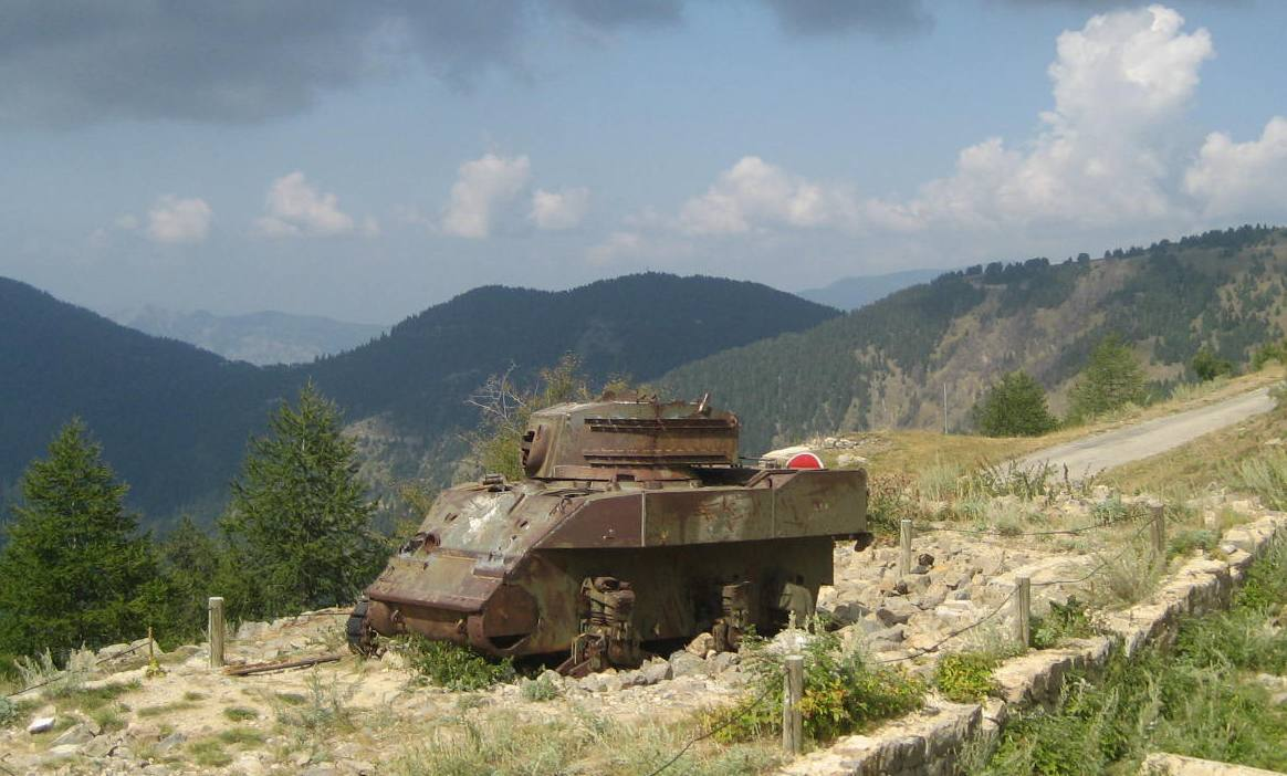 self taken photo taken on Mt Authion - looking to the west over to Col du Torini